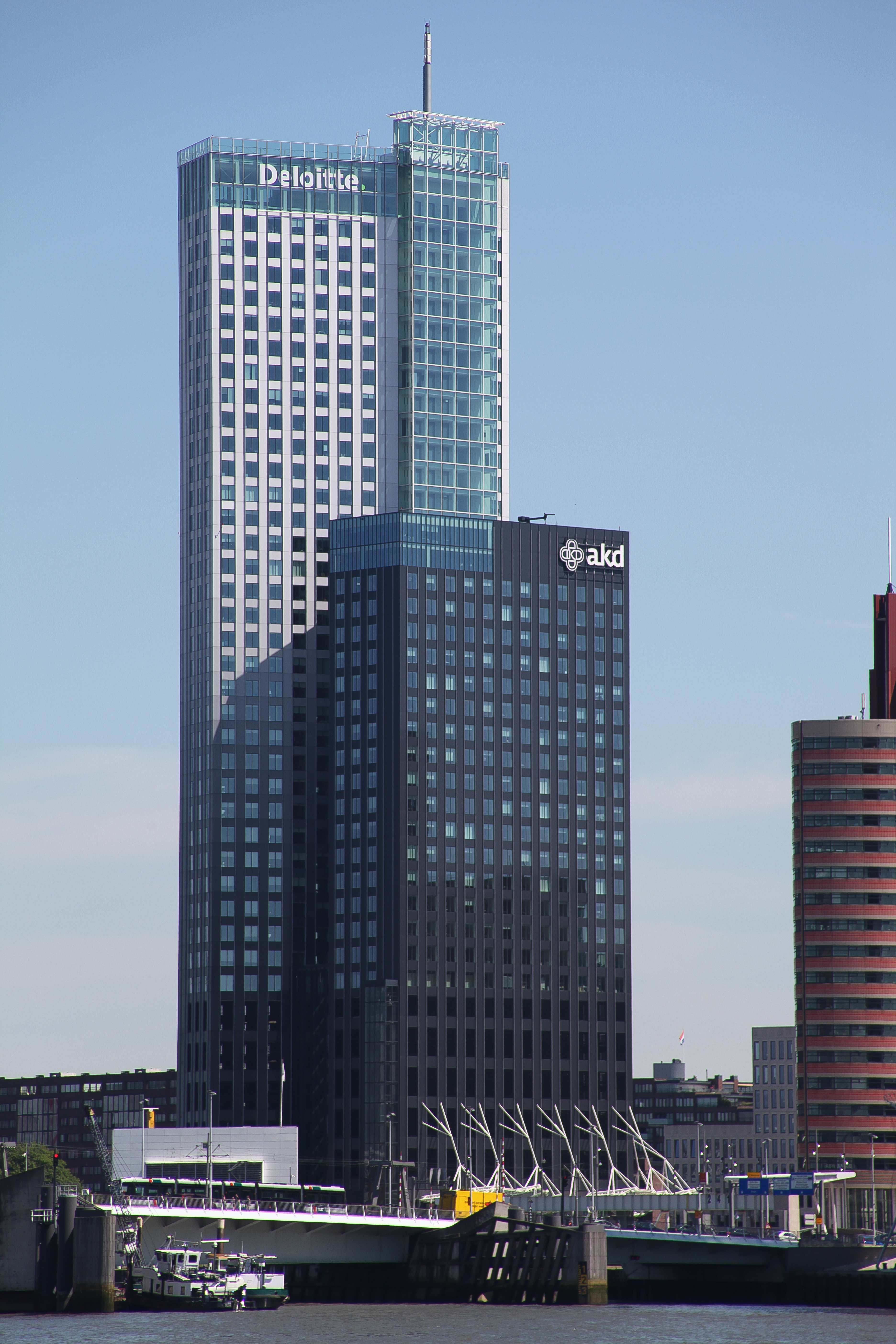 An office building, designed by Dam & Partners